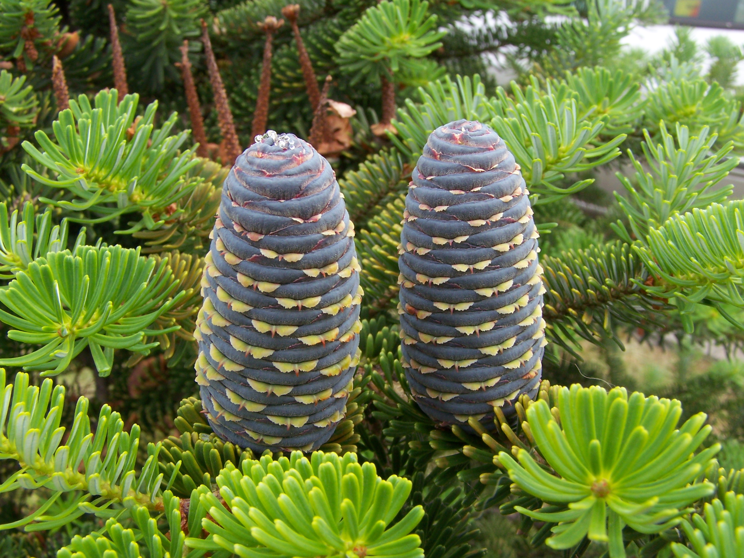 Korean Fir (Abies koreana) cone.